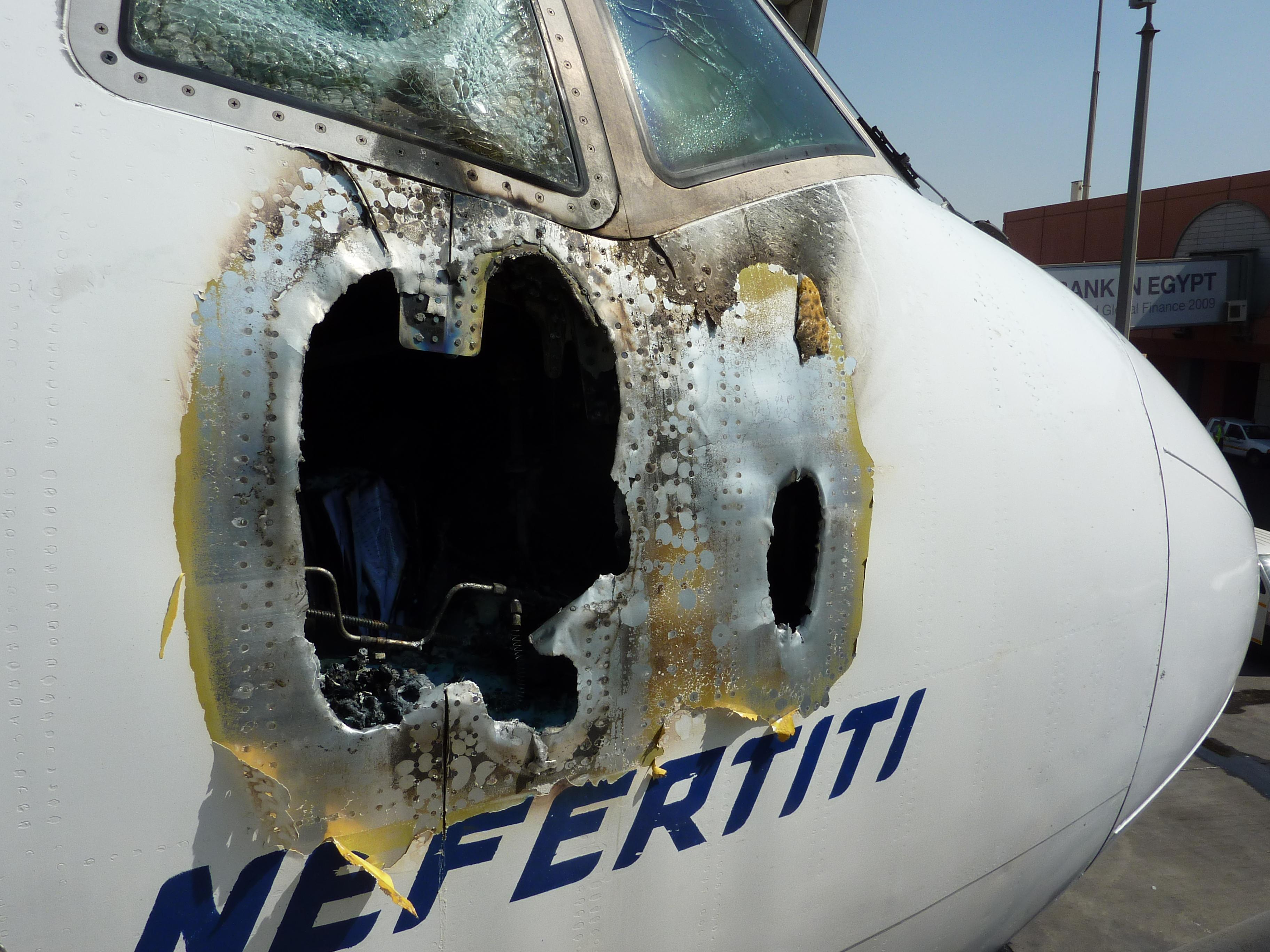 The right side of the nose section of EgyptAir's Boeing 777 Nefertiti following the cockpit fire on 29 July 2011